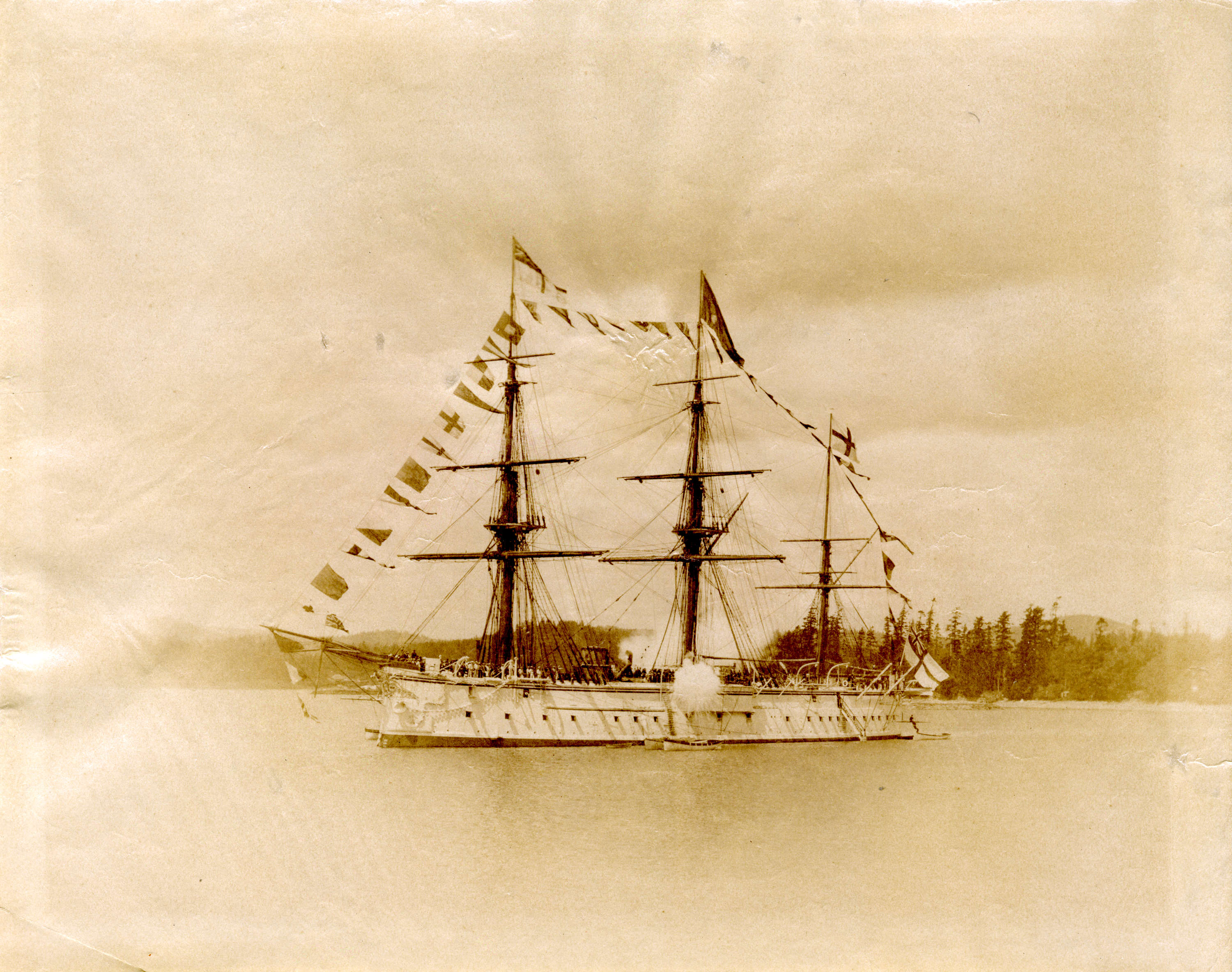 British battleship HMS Triumph dressed. Comment : most likely on the occasion of the official opening of the Canadian Pacific Railway in Vancouver harbour in 1887 for both ceremonial reasons and protection against a rumoured Fenian attack.